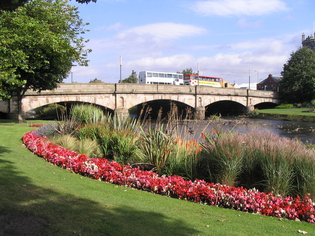 Bridge over the Esk, near to Musselburgh, East Lothian, Great Britain. A 'new' bridge over the River Esk at Musselburgh - built by the engineer John Rennie in 1806, and widened and enlarged in 1924-5, it now carries the A199 from Edinburgh through Musselburgh to East Lothian.